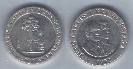 Spain - 200 pesetas Madrid European Capital of Culture - 1992